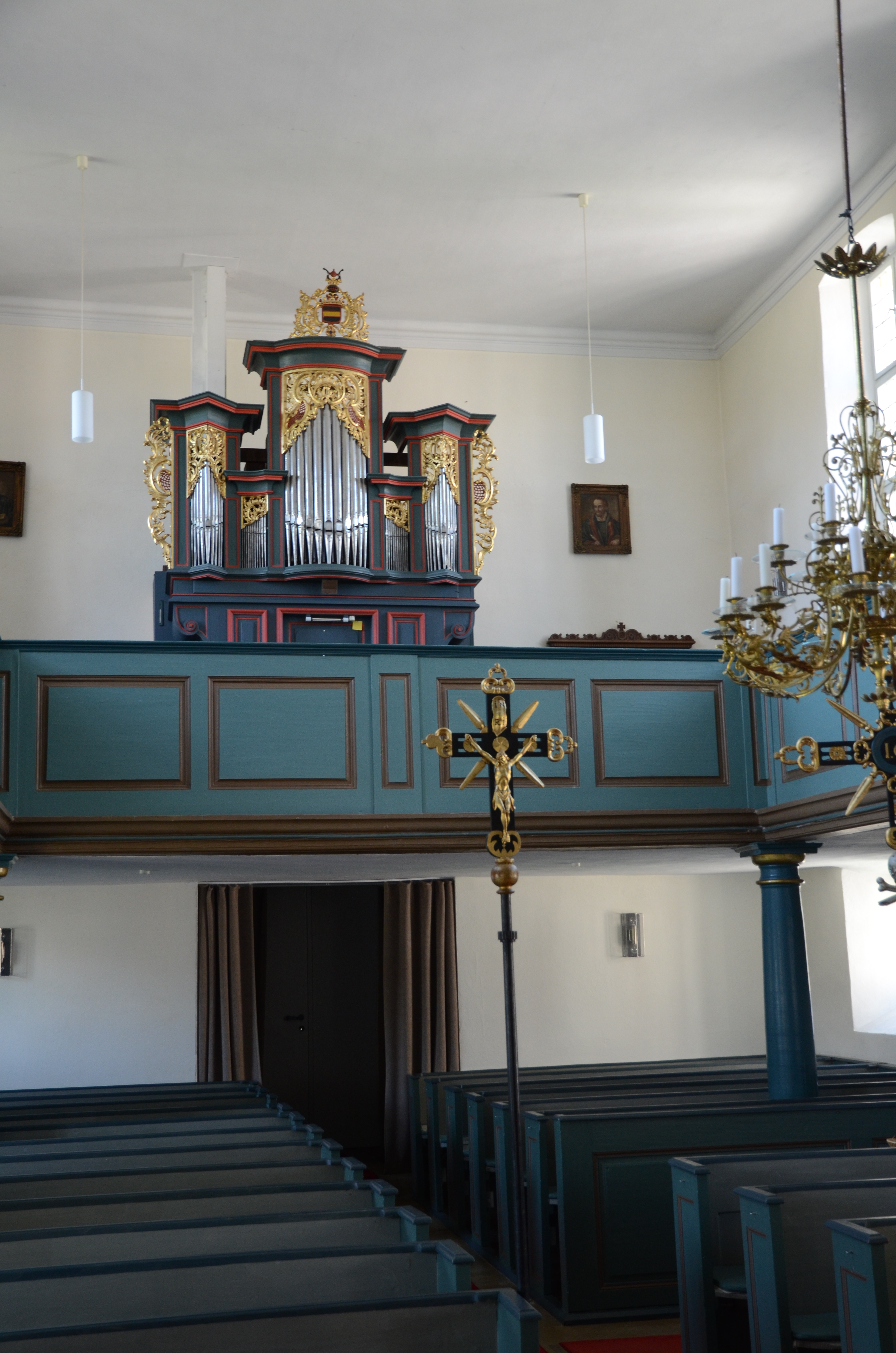 Thann evang.-luth. Kirche St. Peter